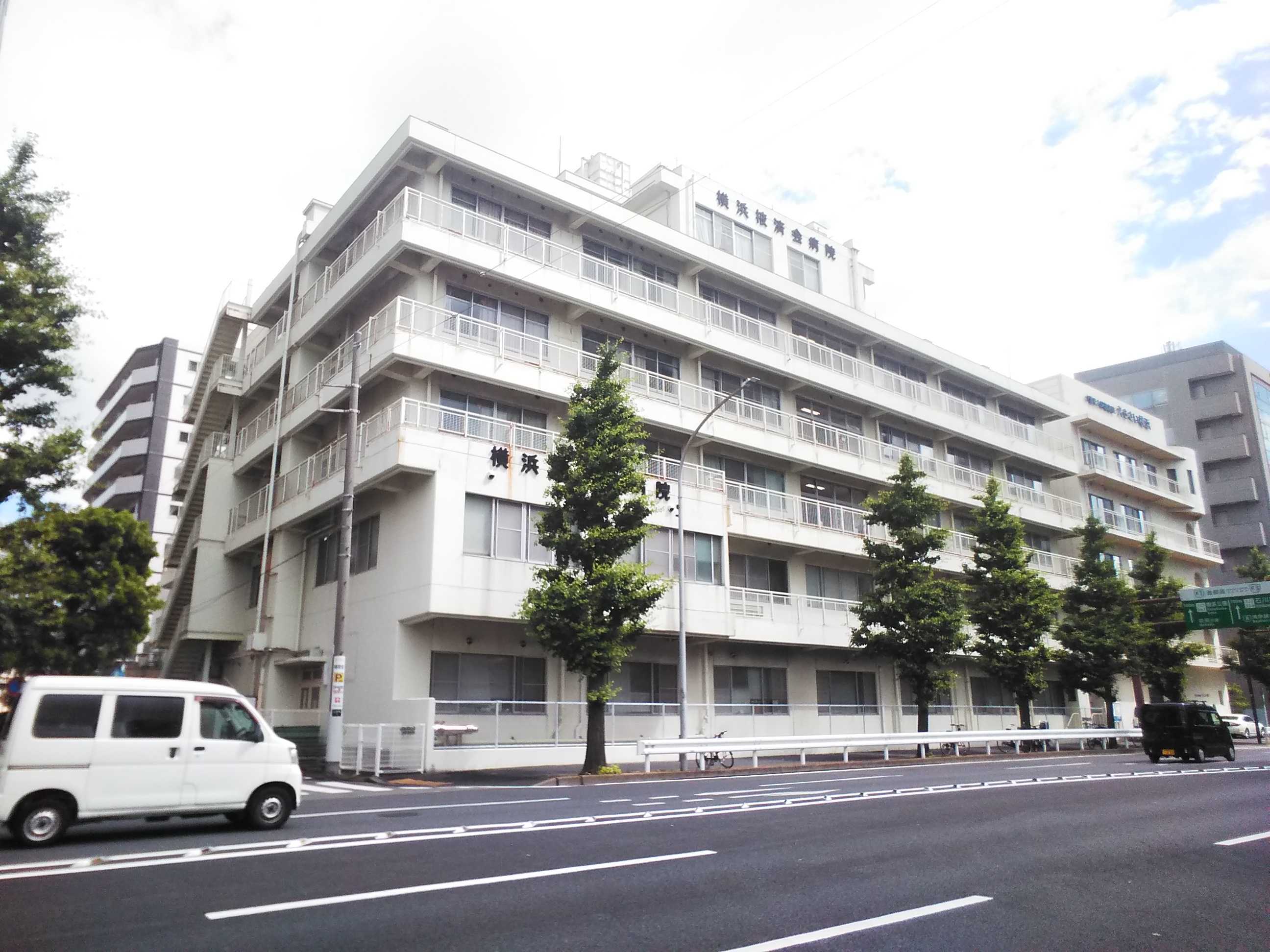 Yokohama Ekisaikai Hospital